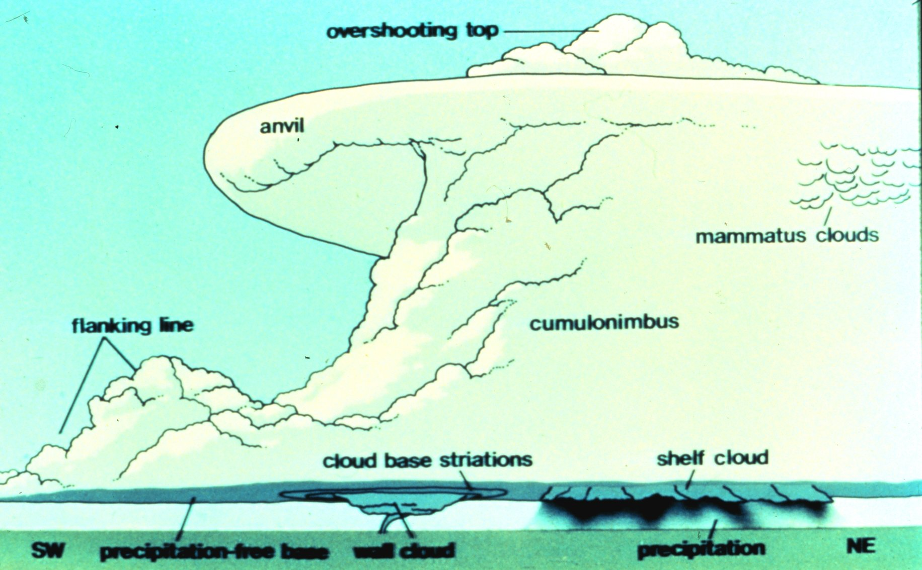 Features of a supercell. Note: This is a typical northwestward view in North America